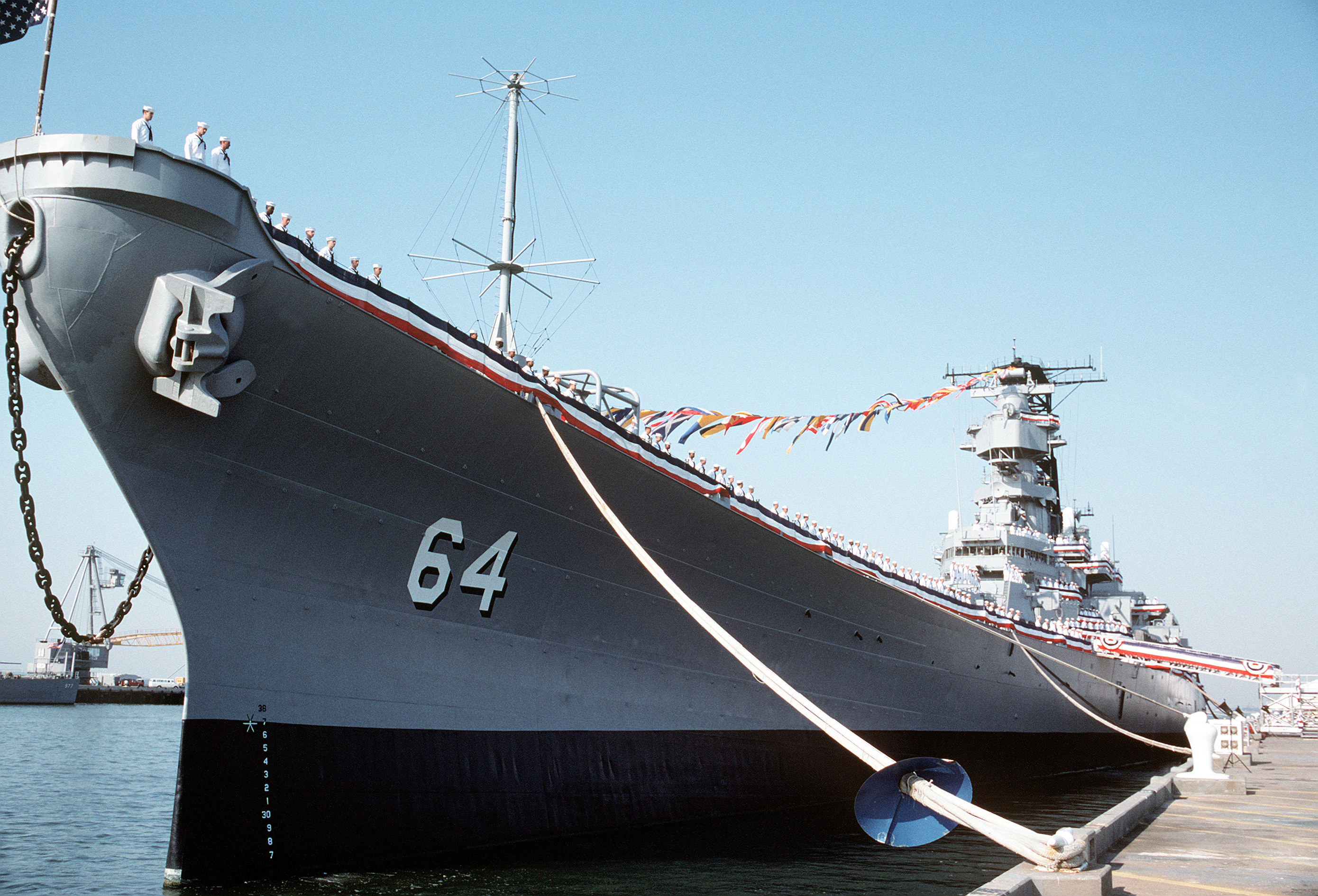 Crew members man the rails aboard the battleship USS WISCONSIN (BB-64) during the vessel's decommissioning ceremony. Location: NAVAL AIR STATION, NORFOLK, VIRGINIA (VA) UNITED STATES OF AMERICA (USA)